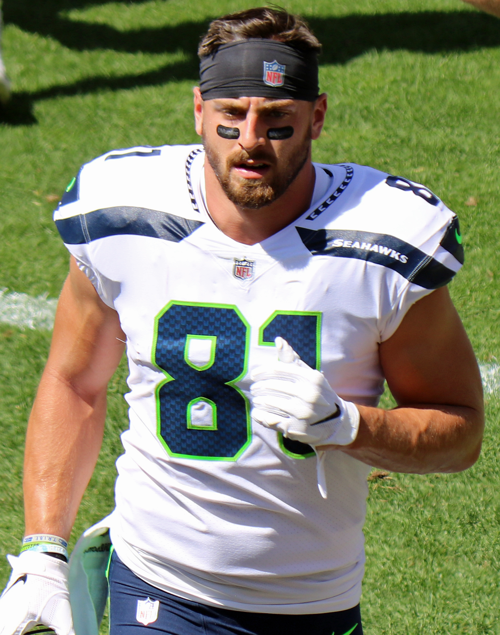 Nick Vannett, a National Football League player.